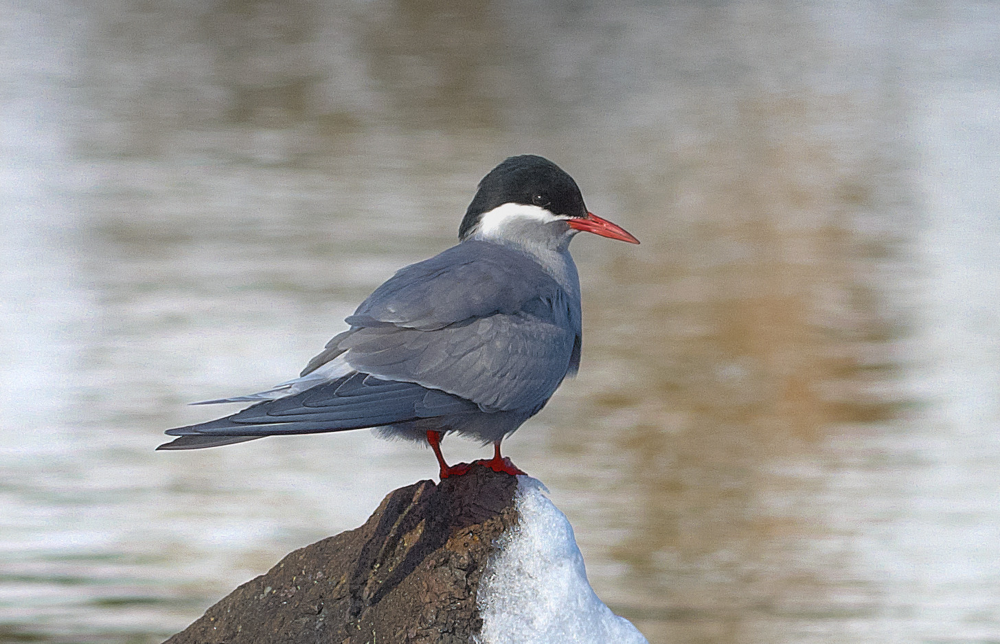 Adult Kerguelen Tern, Mayes Island, Kerguelen Archipelago, France.